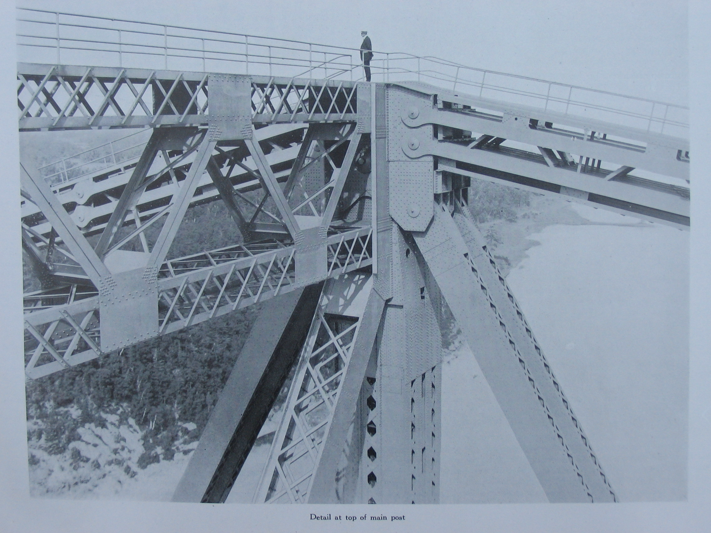 Consulting Engineer, standing on top of the main post of the Quebec Bridge, 1918. From Volume 1 of 'The Quebec Bridge Report'.